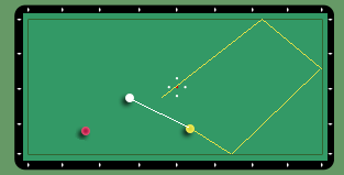 A three-rail bank shot on the castle in five-pin billiards also known as Italian billiards.